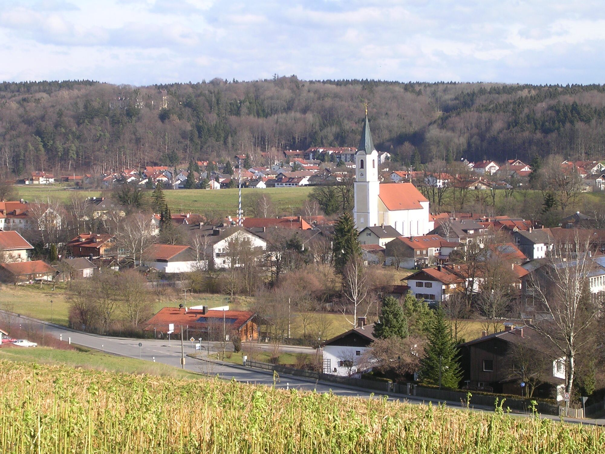 village Glonn in Upper Bavaria/Germany, view from south-west.